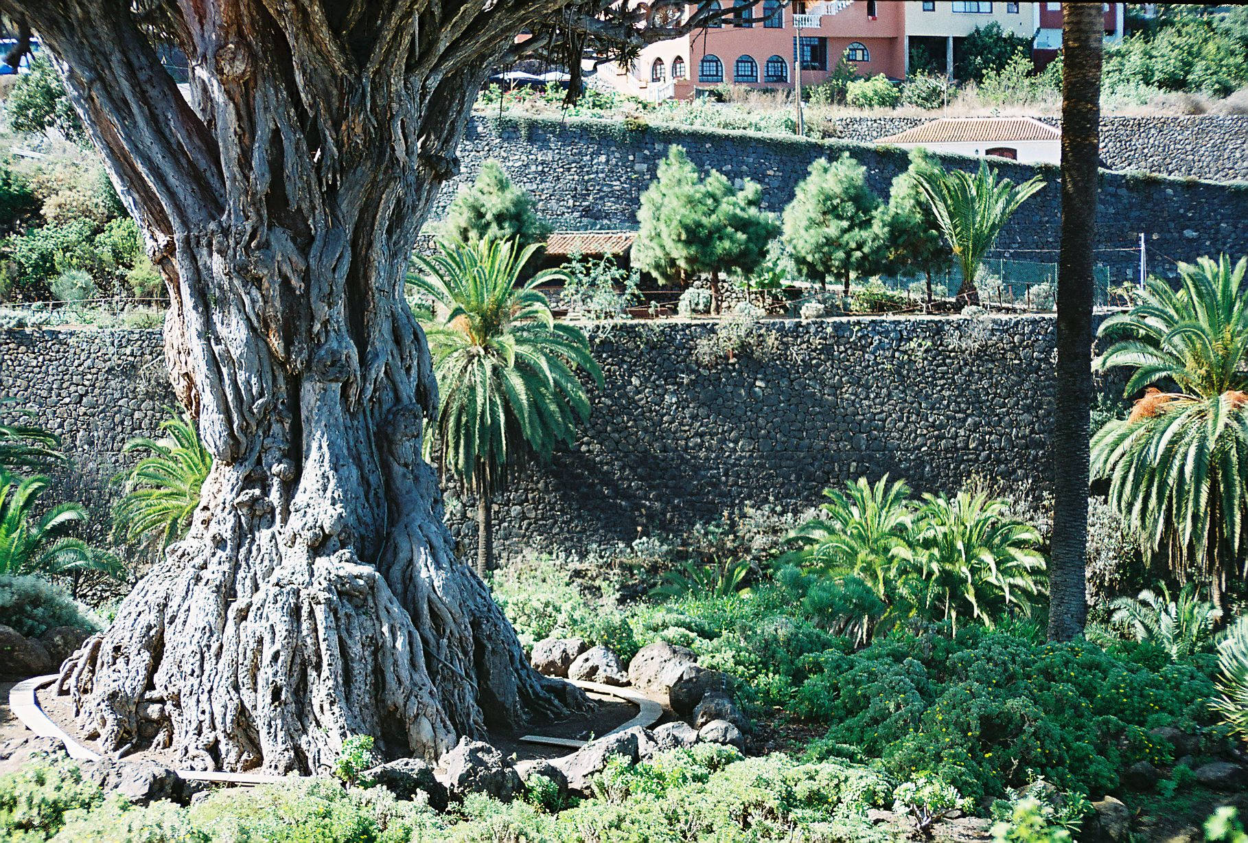 Dragon's blood tree (ДРАКОНОВО ДЕРЕВО)